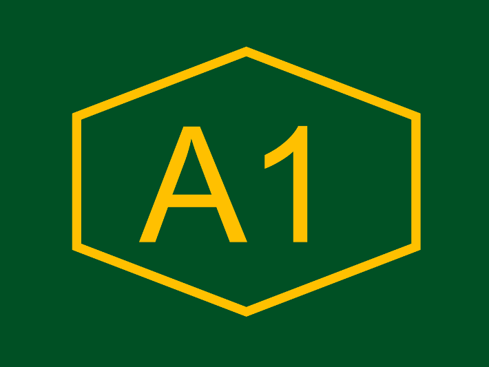 A1 highway logo Cyprus